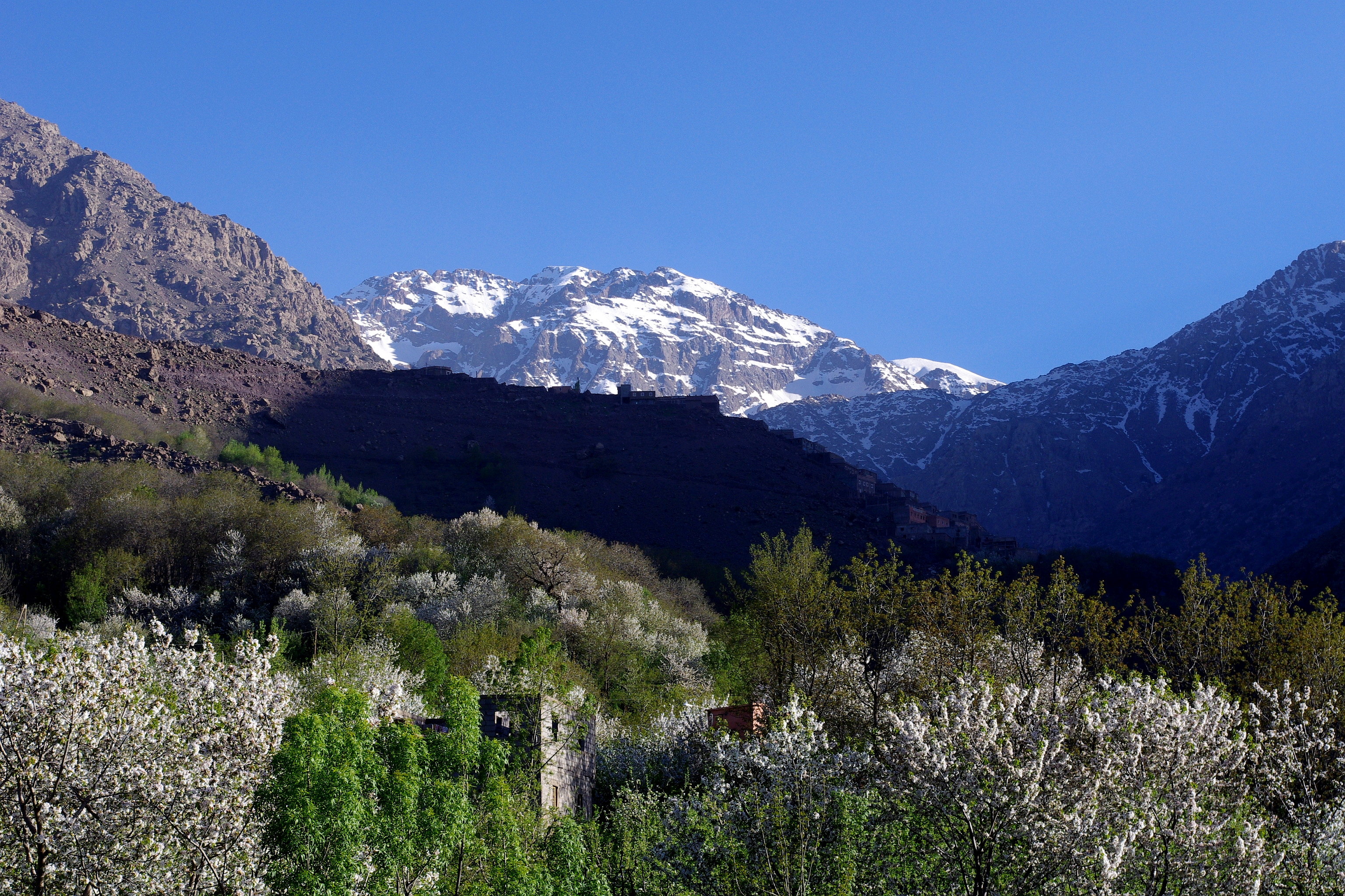 Spring blossom at Jbel Toubkal. Toubkal National Park (WDPA ID 555569986).